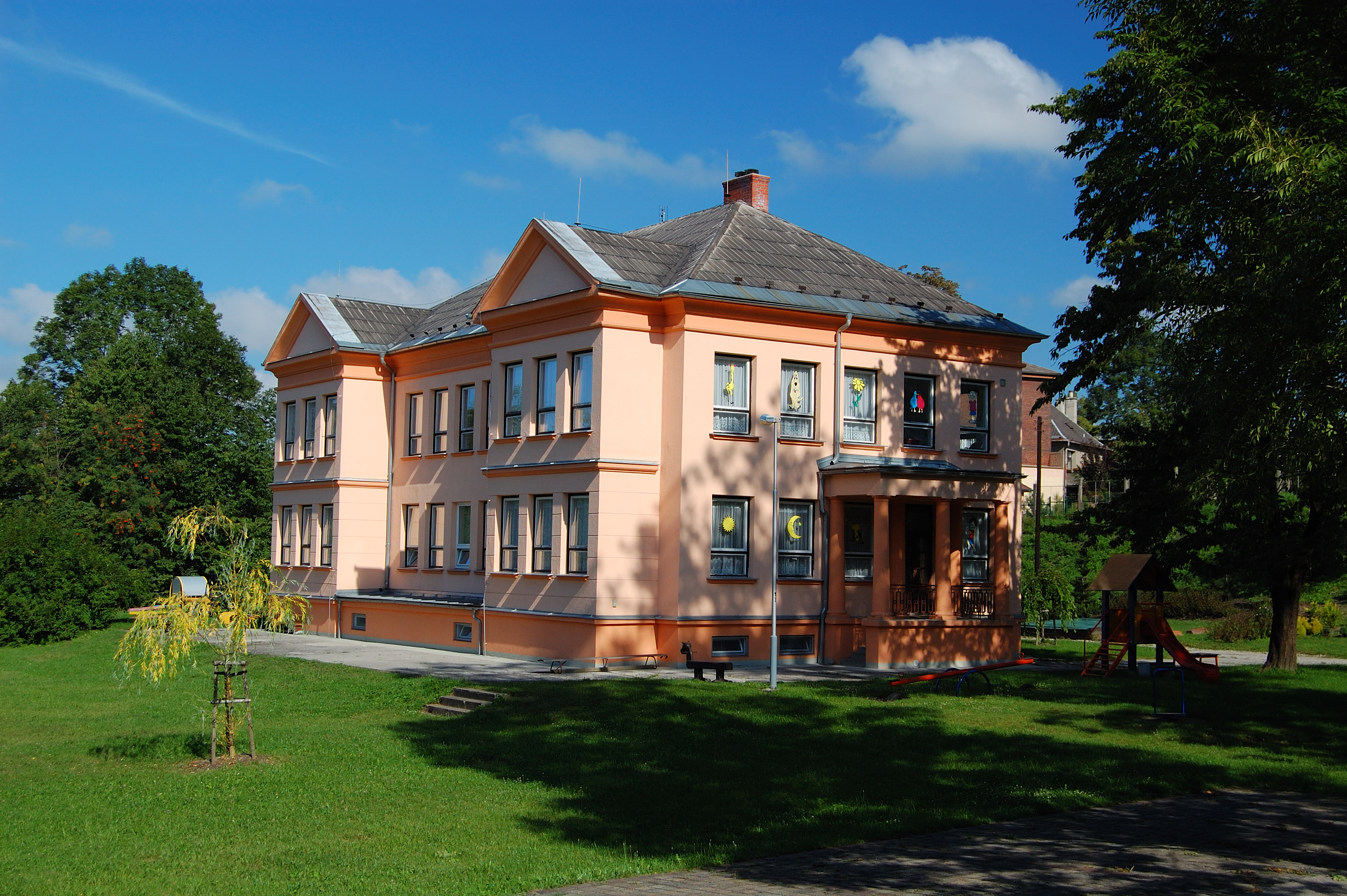 A kindergarten in the Zámostní street in the Silesian Ostrava, Czech Republic.